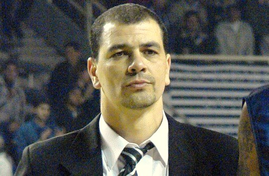 Coach Sergio "Oveja" Hernández.